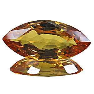 Marquise (navette) cut yellow sapphire, heat-treated, 6.87cts